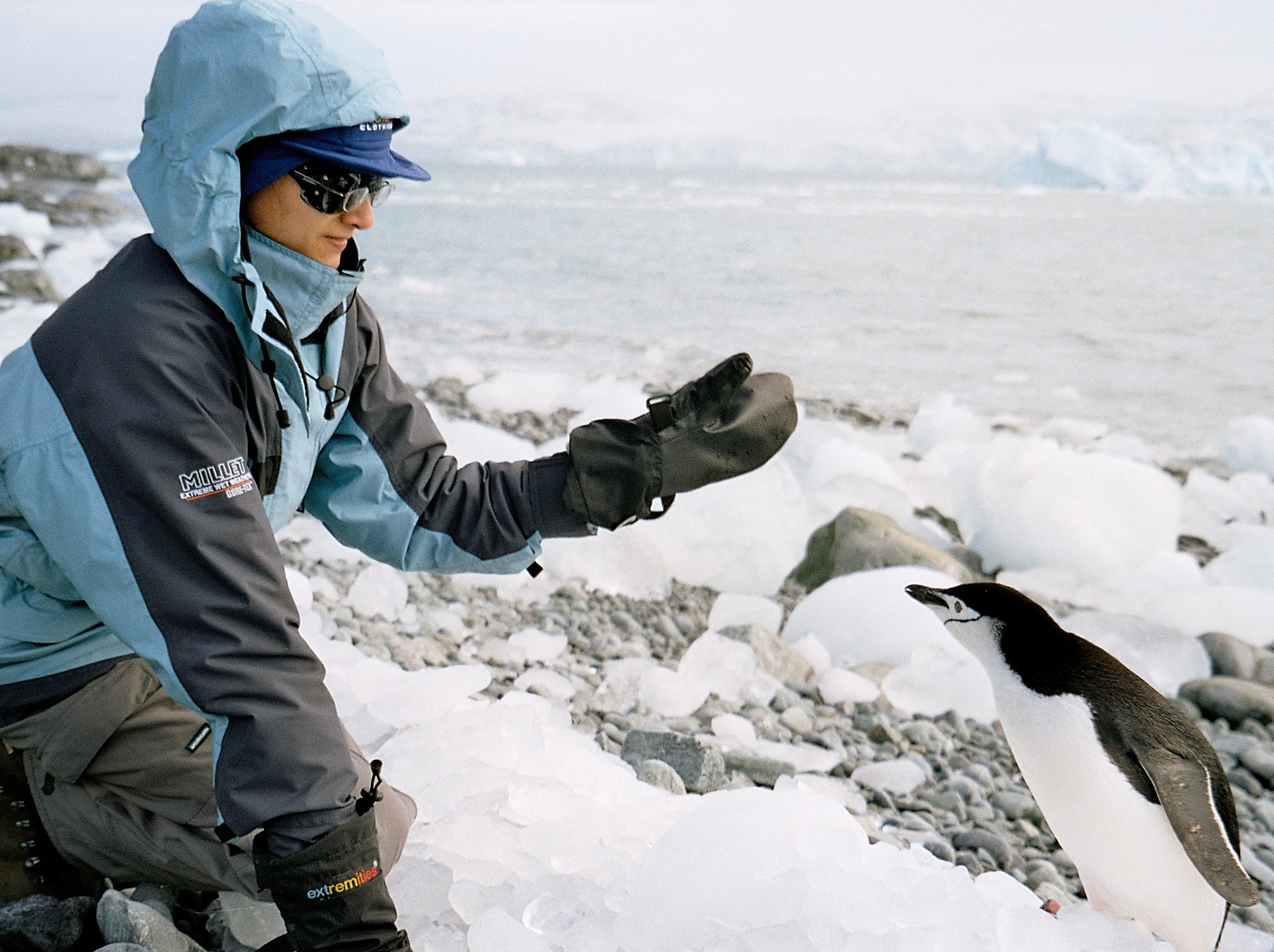 The first Bulgarian schoolgirl to visit Antarctica. Nusha Ivanova (b. 1986 in Sofia) in the vicinity of St. Kliment Ohridski base, Livingston Island, South Shetland Islands.